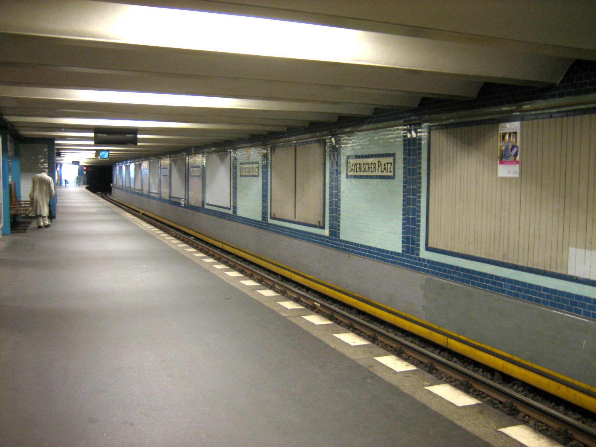 Subway station Bayerischer Platz in Berlin; platform of line U4